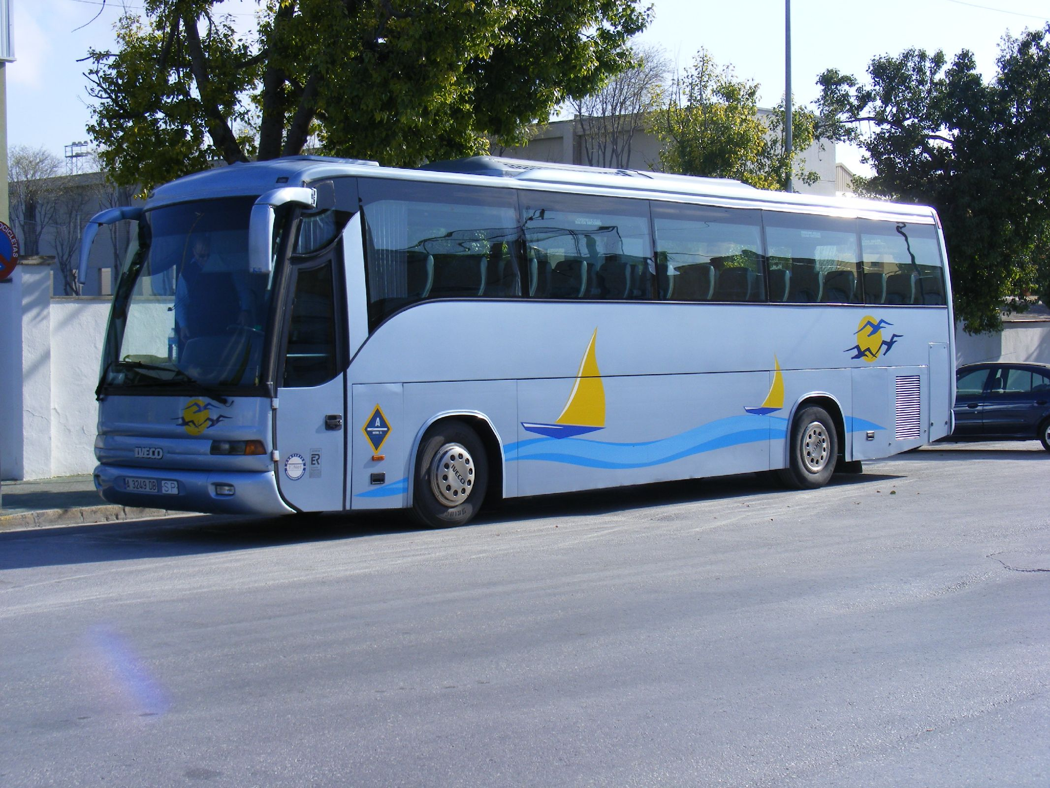 Autobuses de Dénia , part of the Denibus group, Denia, Spain